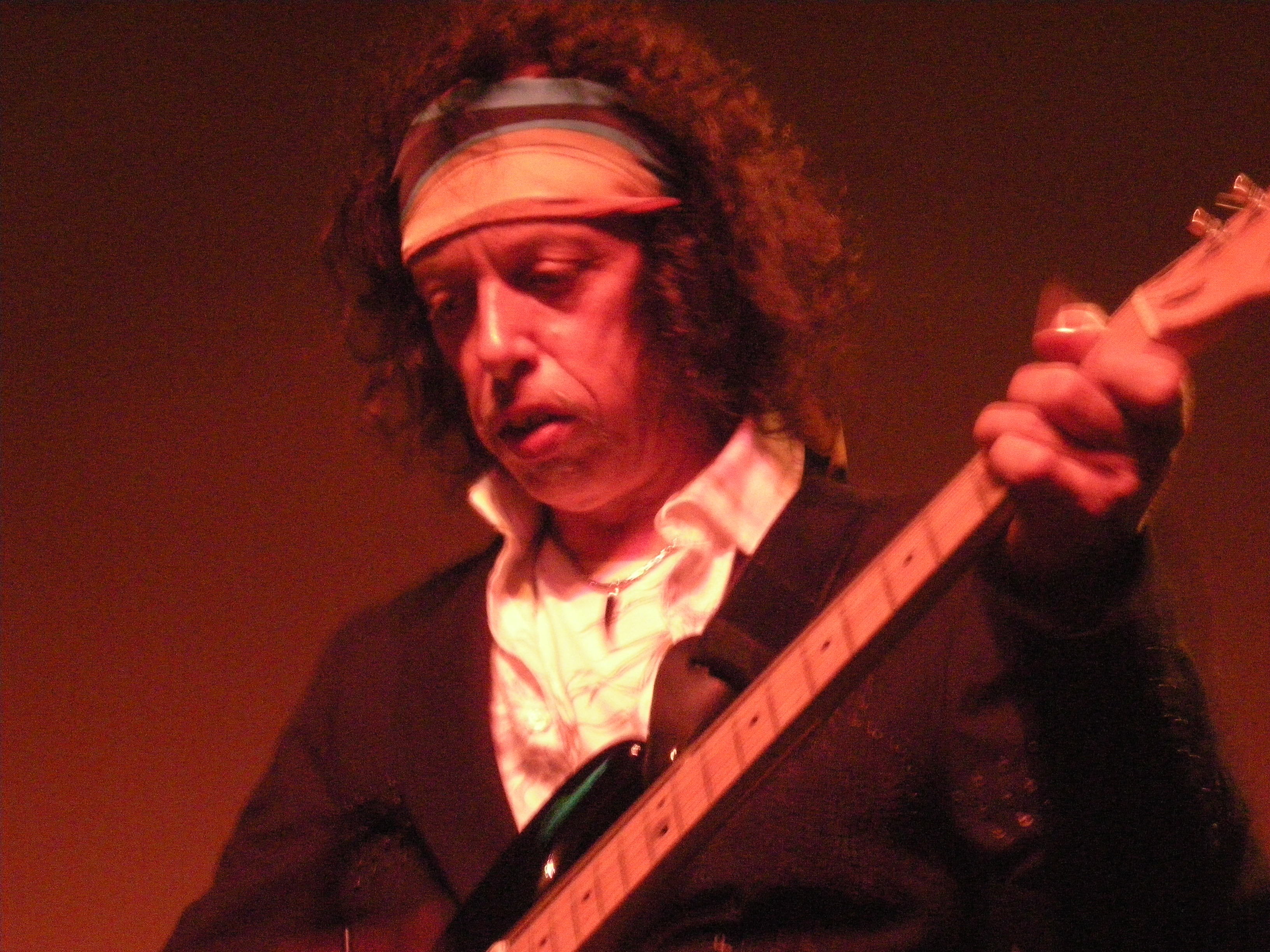 Randy Hansen performing with the band Café Authors at Vivian McPeak's 50th Birthday Party, King Cat Theater, Seattle, Washington, U.S.